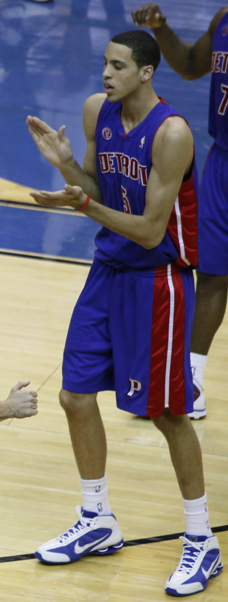 Austin Daye playing with the Detroit Pistons.